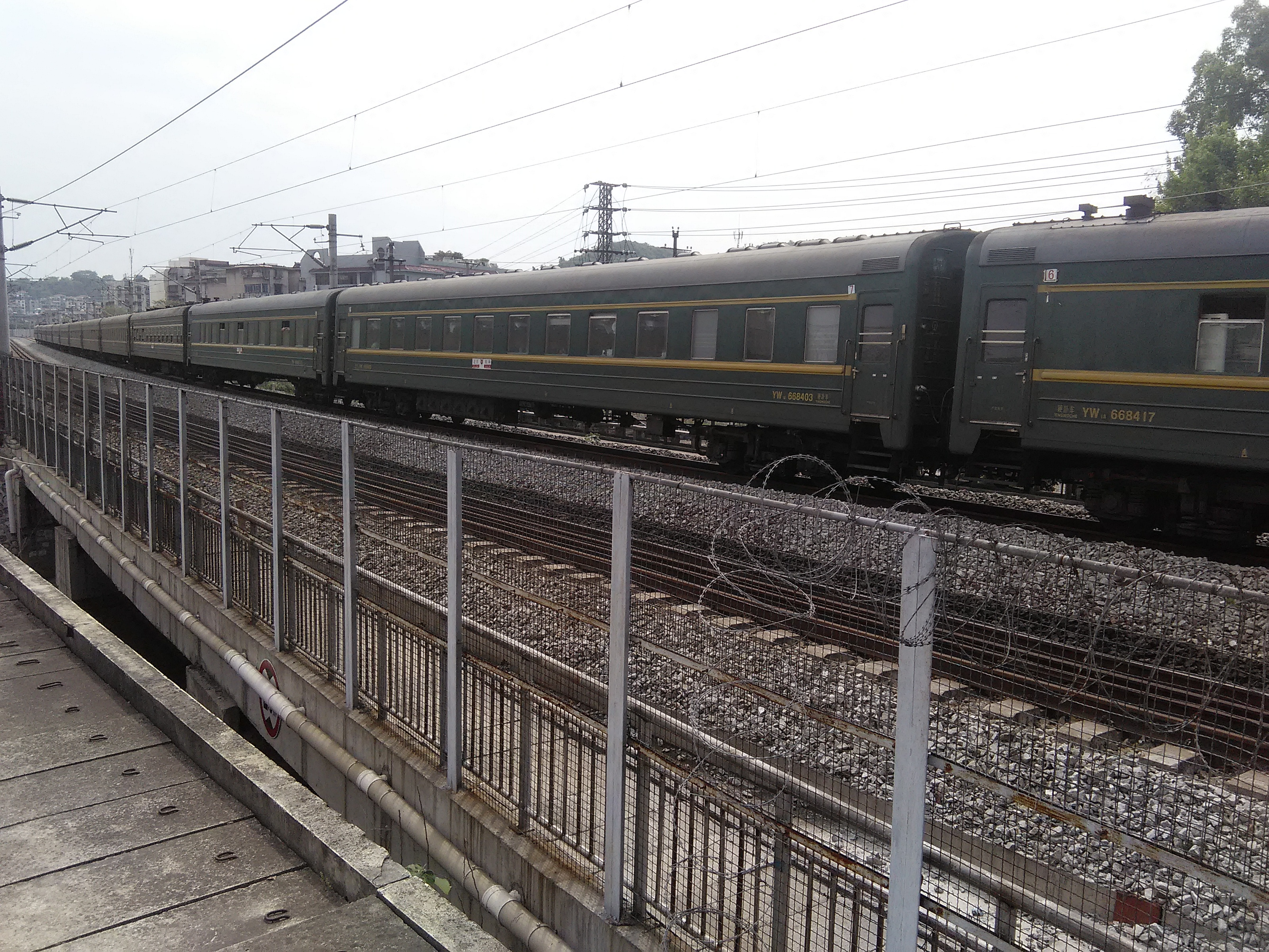 China Railways YW18 668403 in Guilin